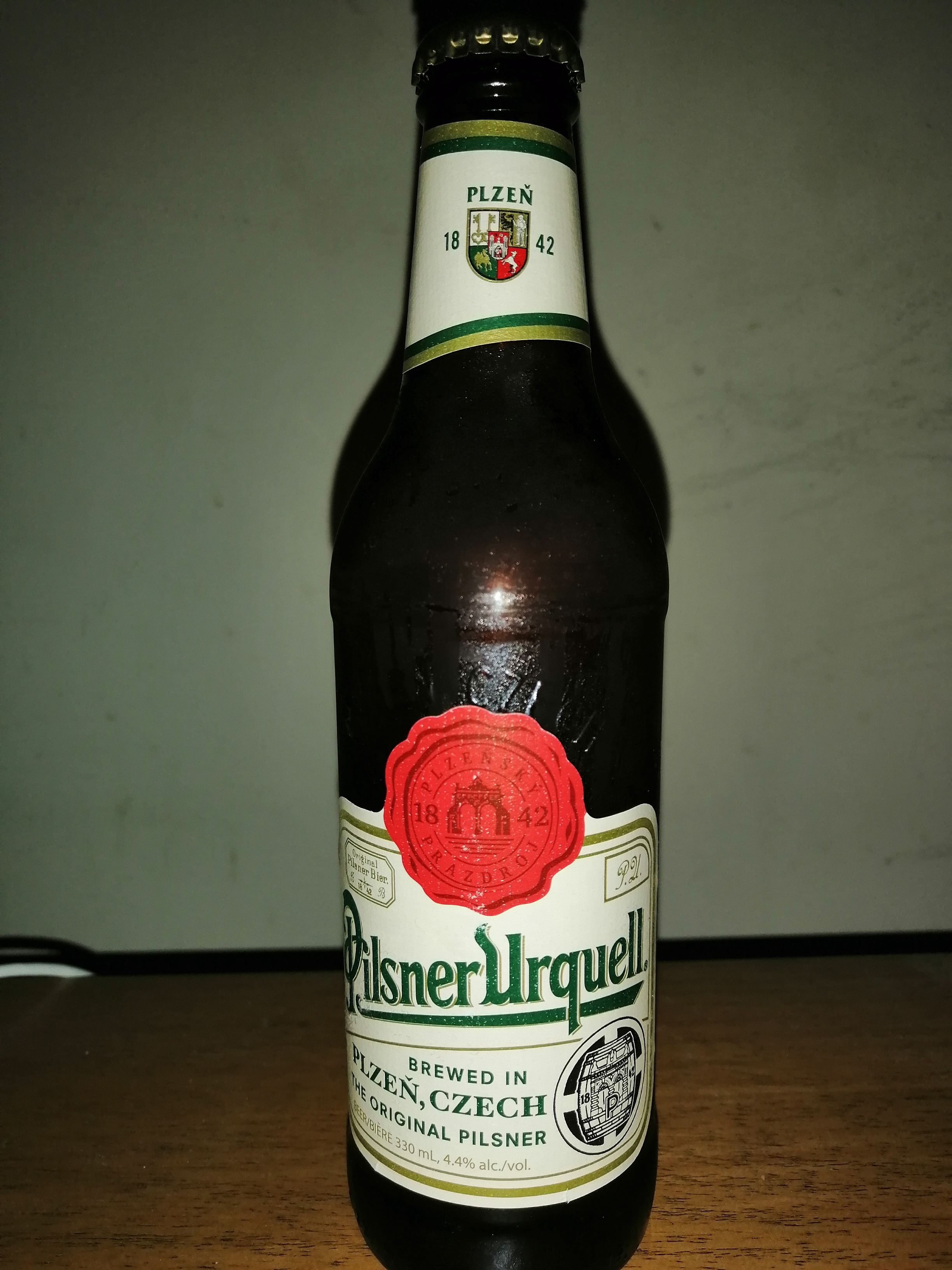 A 330mL bottle of Pilsner Urquell.